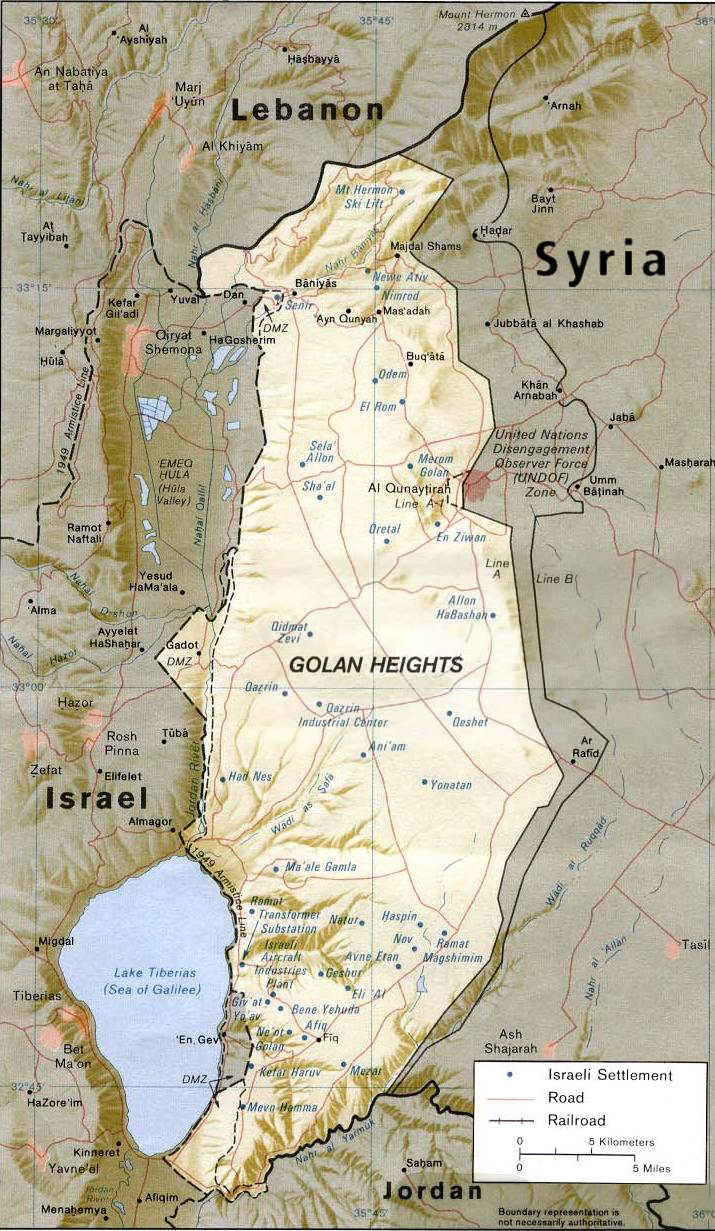 Map of the Golan Heights, adapted from a map by the CIA and File:Golan heights rel89-orig.jpg